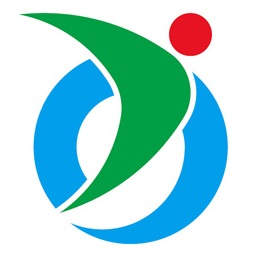 Tsuno Kochi chapter